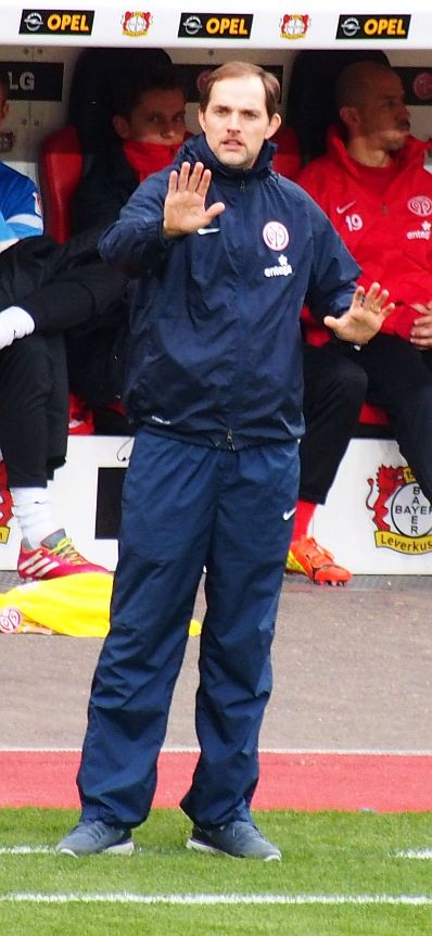 Mainz 05 coach Thomas Tuchel, away match in Leverkusen 2014